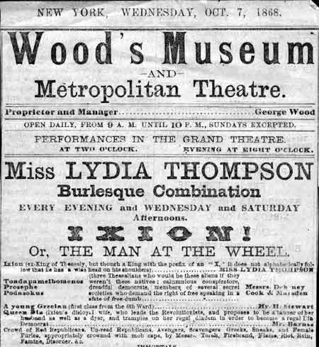 1868 program for Lydia Thompson's troupe.